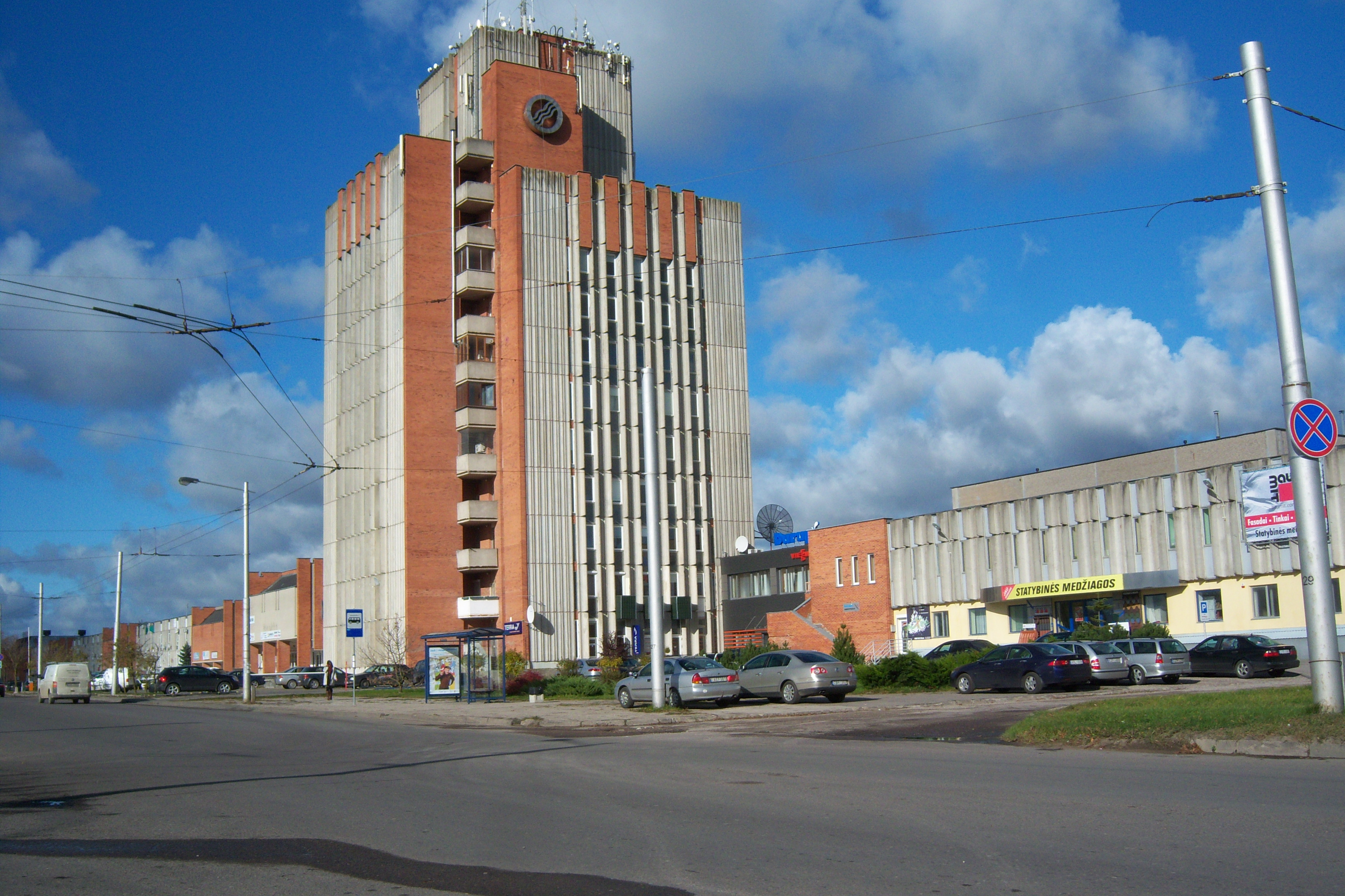 Kaunas Banga factory in Draugystės Street, Lithuania